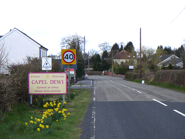 Village. Looking west to Capel Dewi